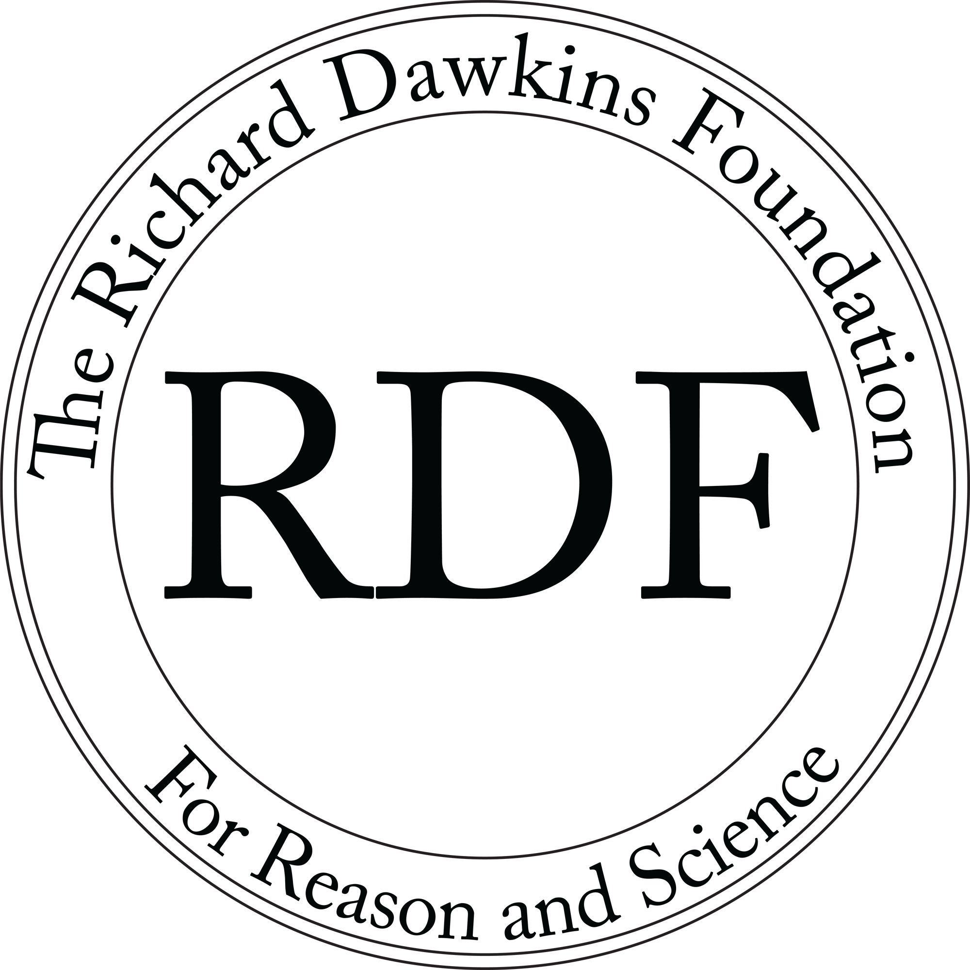 The Logo of the Richard Dawkins Foundation for Reason and Science which will be used to replace the current logo on the RDFRS page